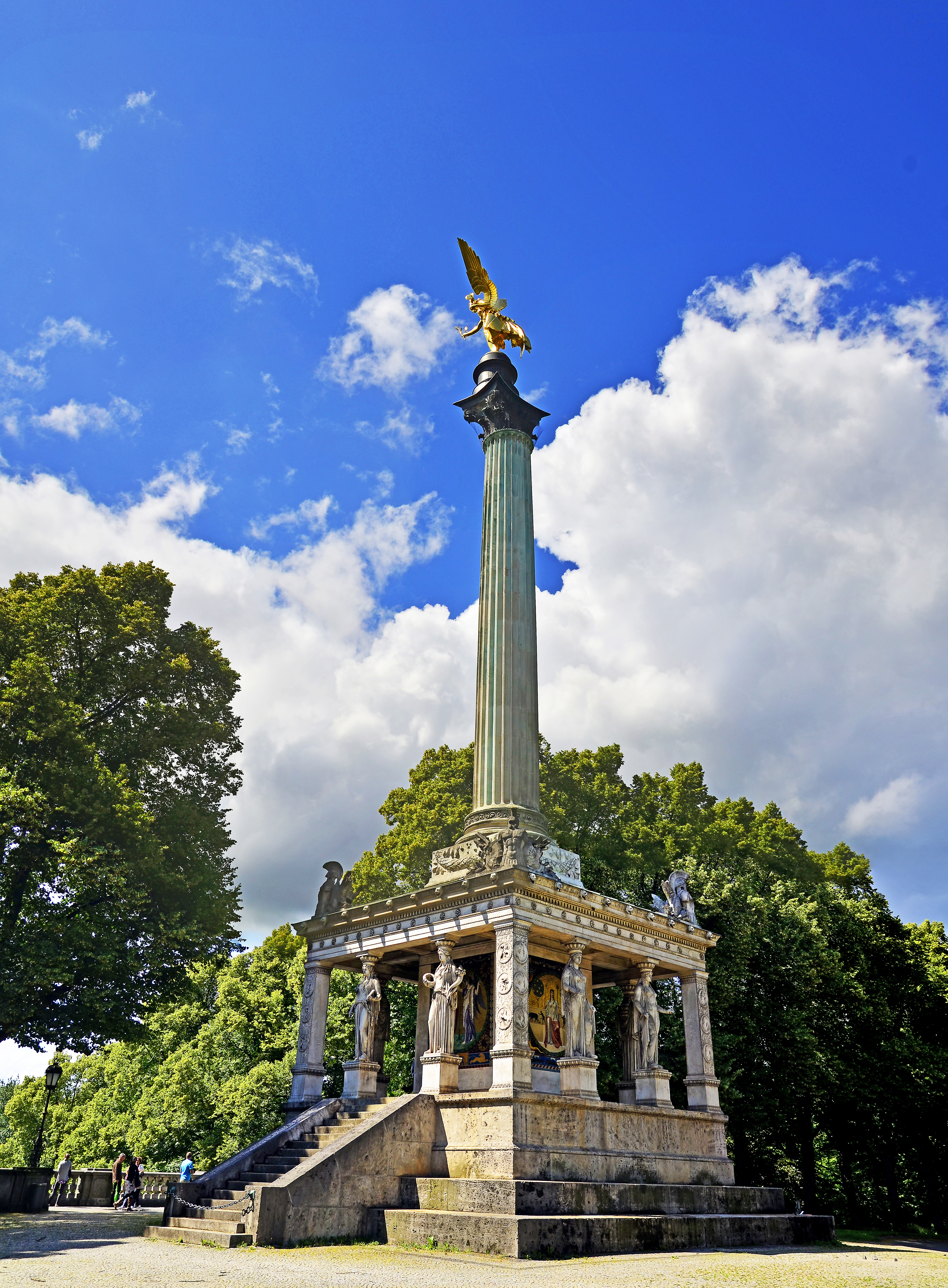 Friedensengel, Munich, View from South East